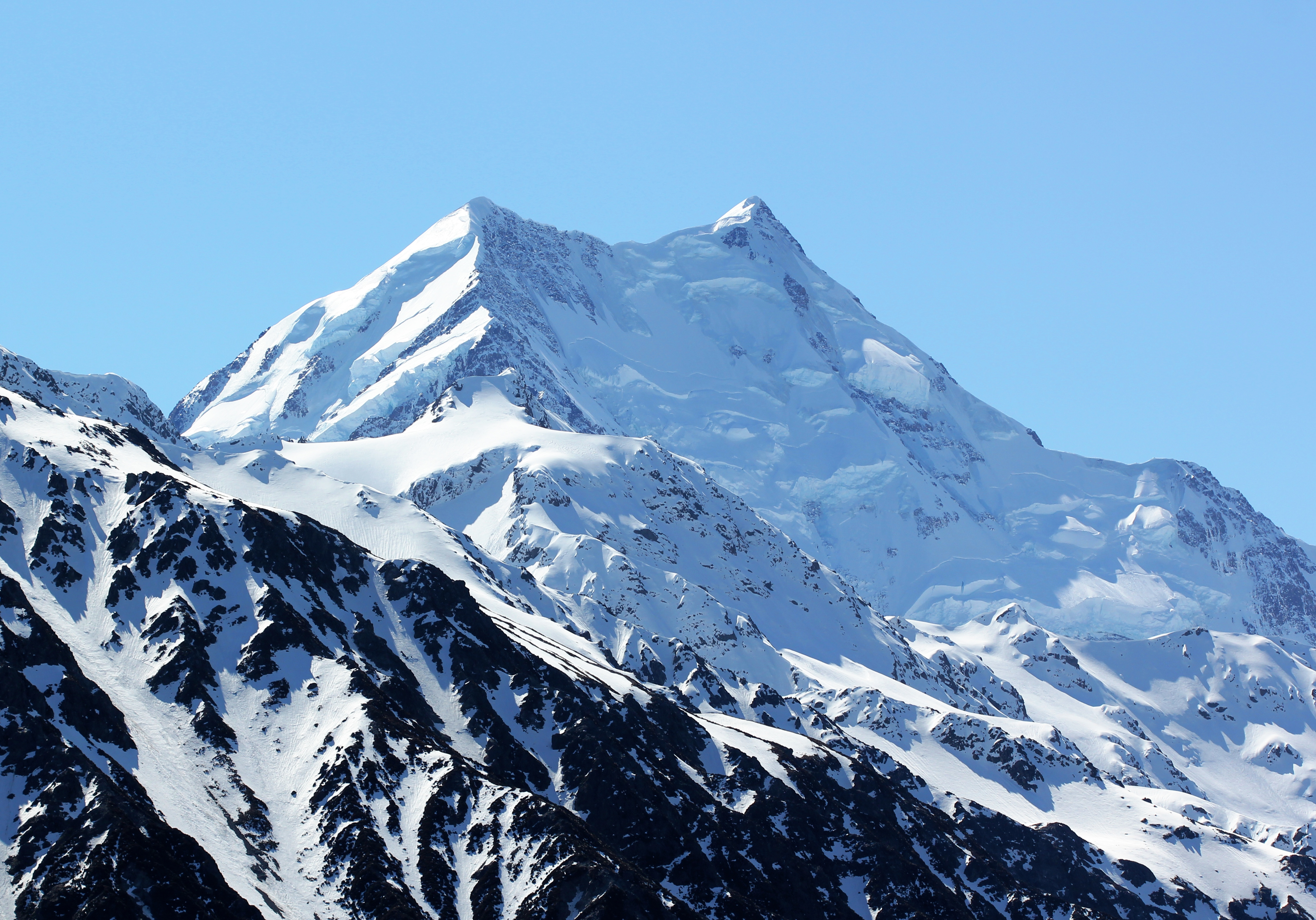 Aoraki/Mount Cook, New Zealand's highest mountain, seen from Tasman Lake.